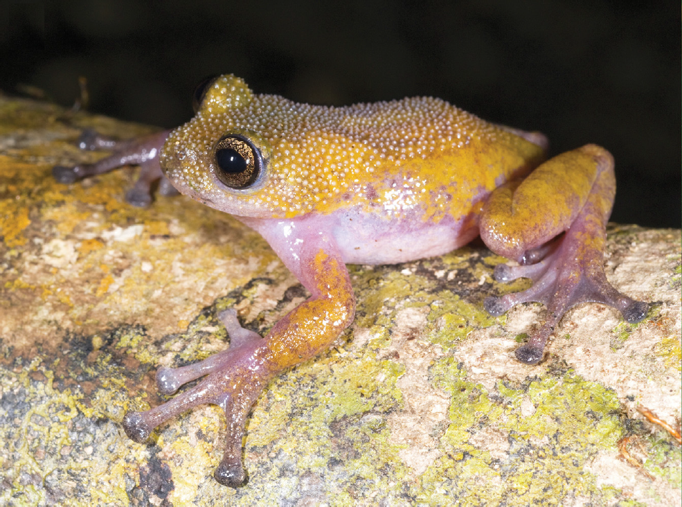 Dorsolateral view of Gracixalus lumarius in life showing variation in skin texture